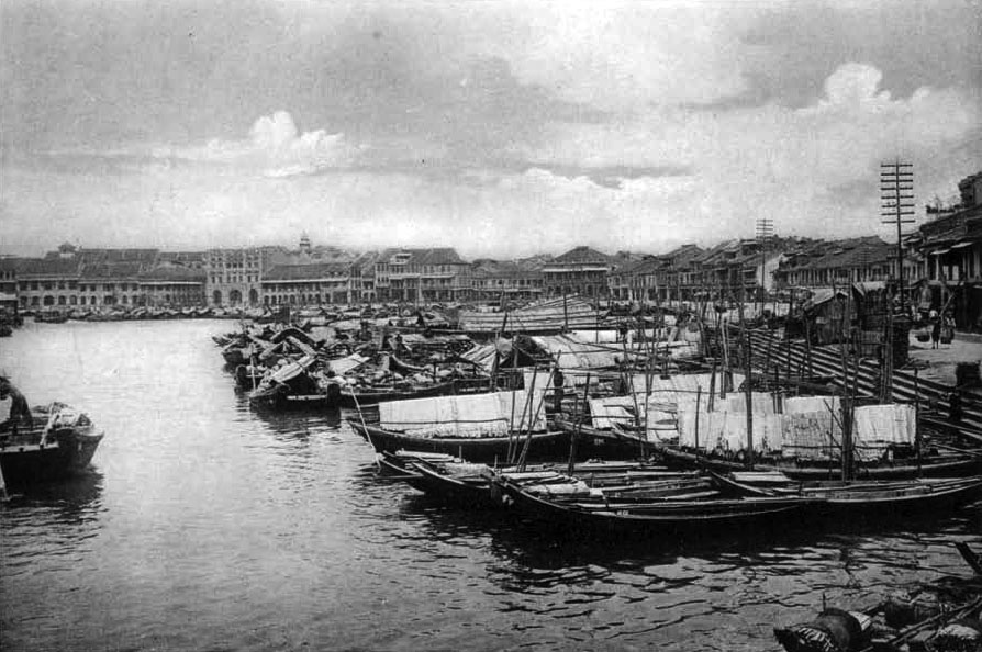 Boats densely parked alongside each other at Boat Quay, Singapore.